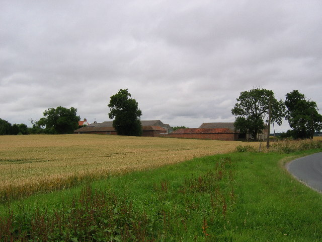 Little Hatfield, East Riding of Yorkshire, England.Looking across to the farm buildings in Little Hatfield, from TA17424317 at the top of the lane which runs to manor Farm in the adjacent square. south.